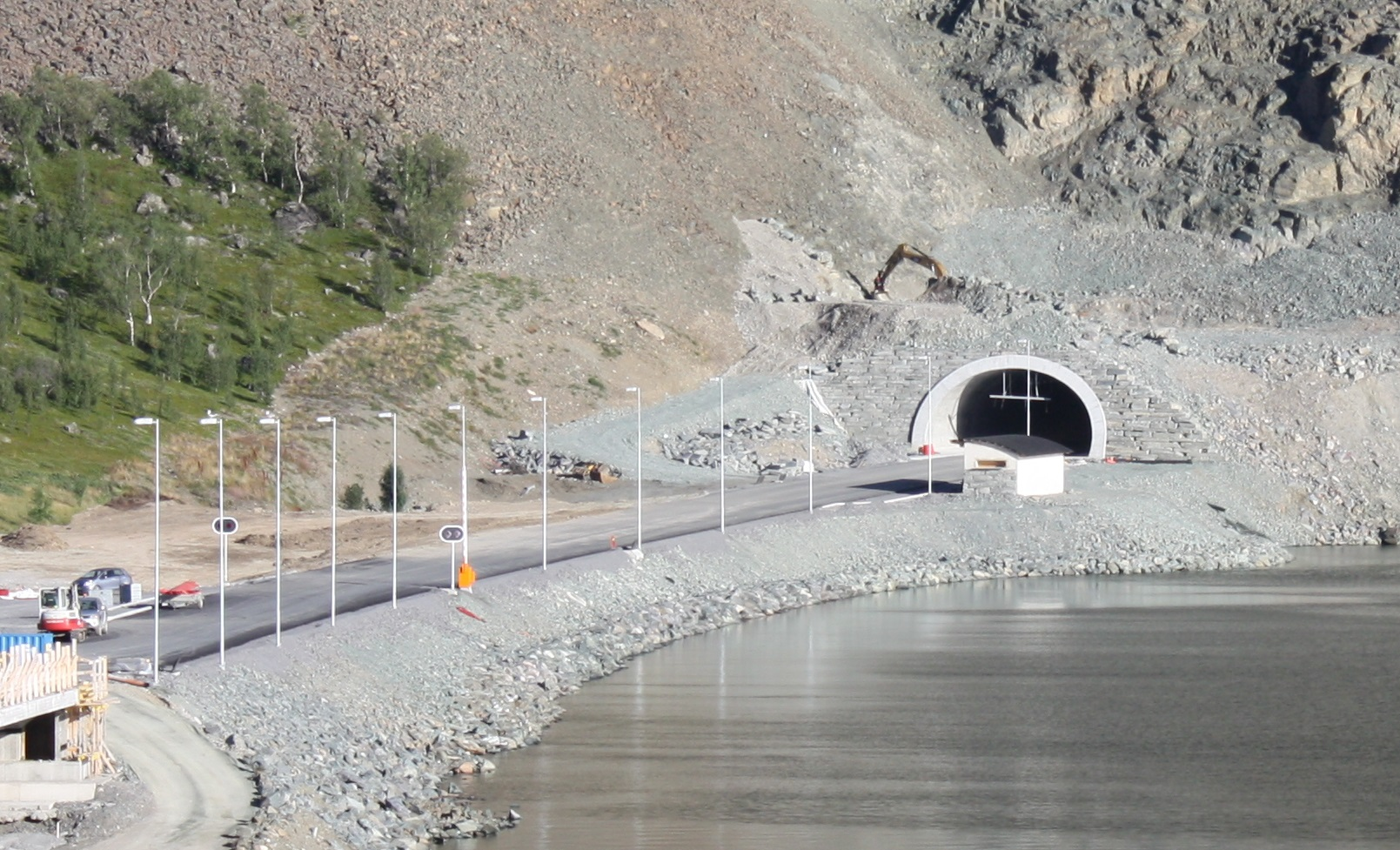 The northwestern entry point of the Kåfjord Tunnel as of August 10, 2013. Construction of the tunnel is still in progress.